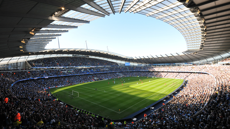 Manchester City Football Club Etihad Stadium